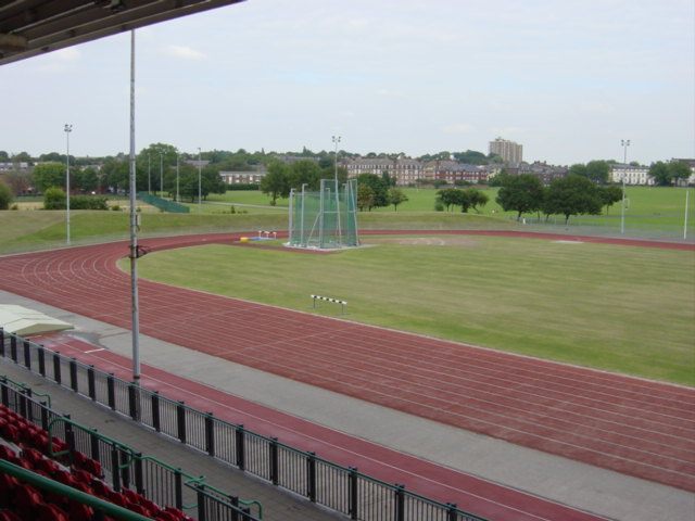 Athletics track, Wavertree Playground. Locally called "The Mystery" because it was donated to the city in May 1895 as a children's playground by an anonymous citizen, Wavertree playground is a large recreation ground with many sports facilities including tennis courts, all weather pitch, bowling green and athletic track with grandstand.